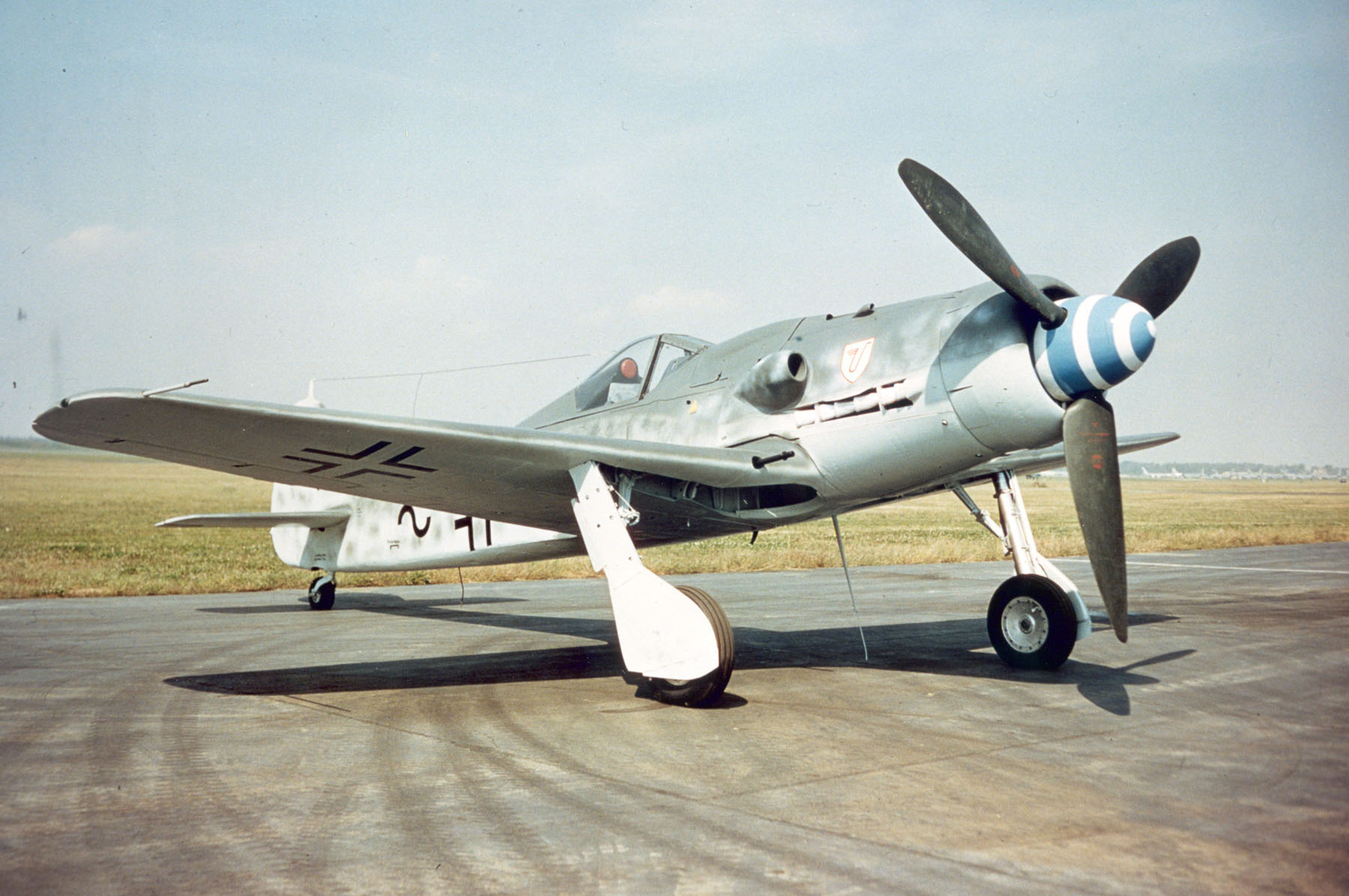 DAYTON, Ohio -- Focke-Wulf Fw 190D-9 at the National Museum of the United States Air Force.